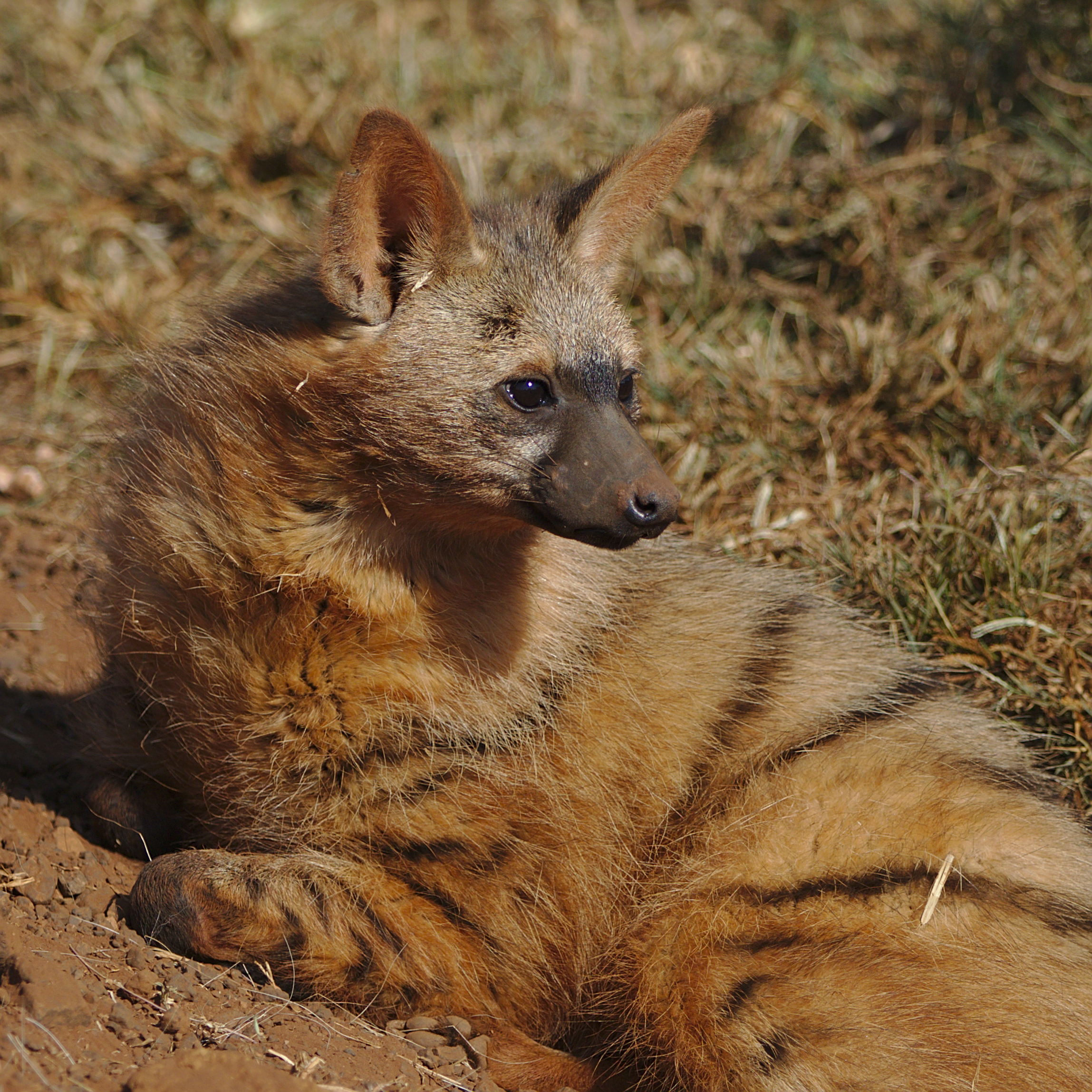 Aardwolf, Proteles cristata, at Lion and Rhino Reserve, Gauteng, South Africa